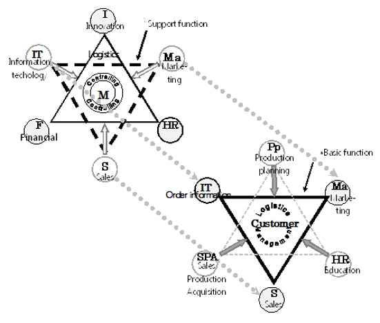 The logistics and management harmony and relationship